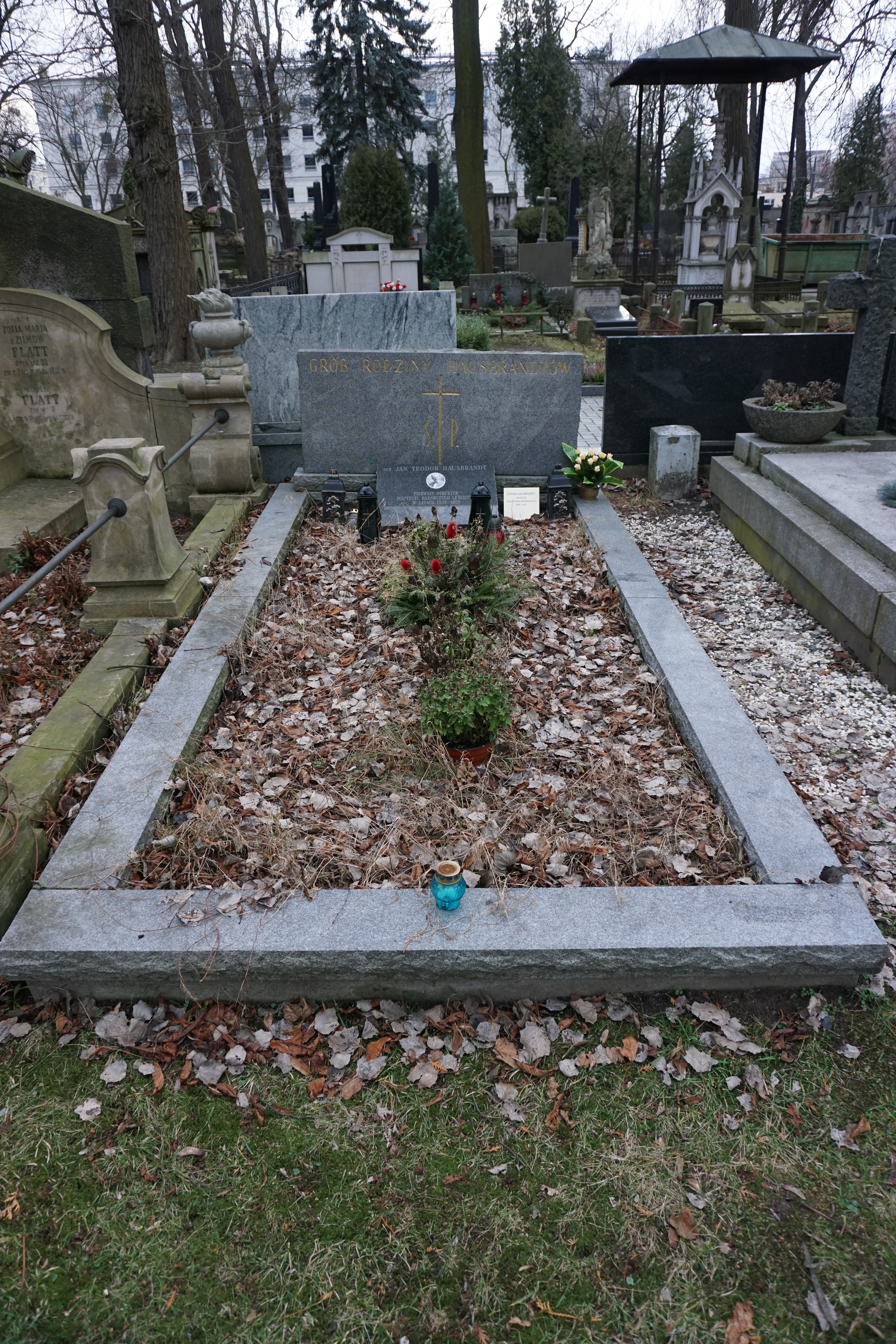 The grave of Andrzej Hausbrandt at the Evangelical-Augsburg Cemetery in Warsaw (avenue 13, grave 33)